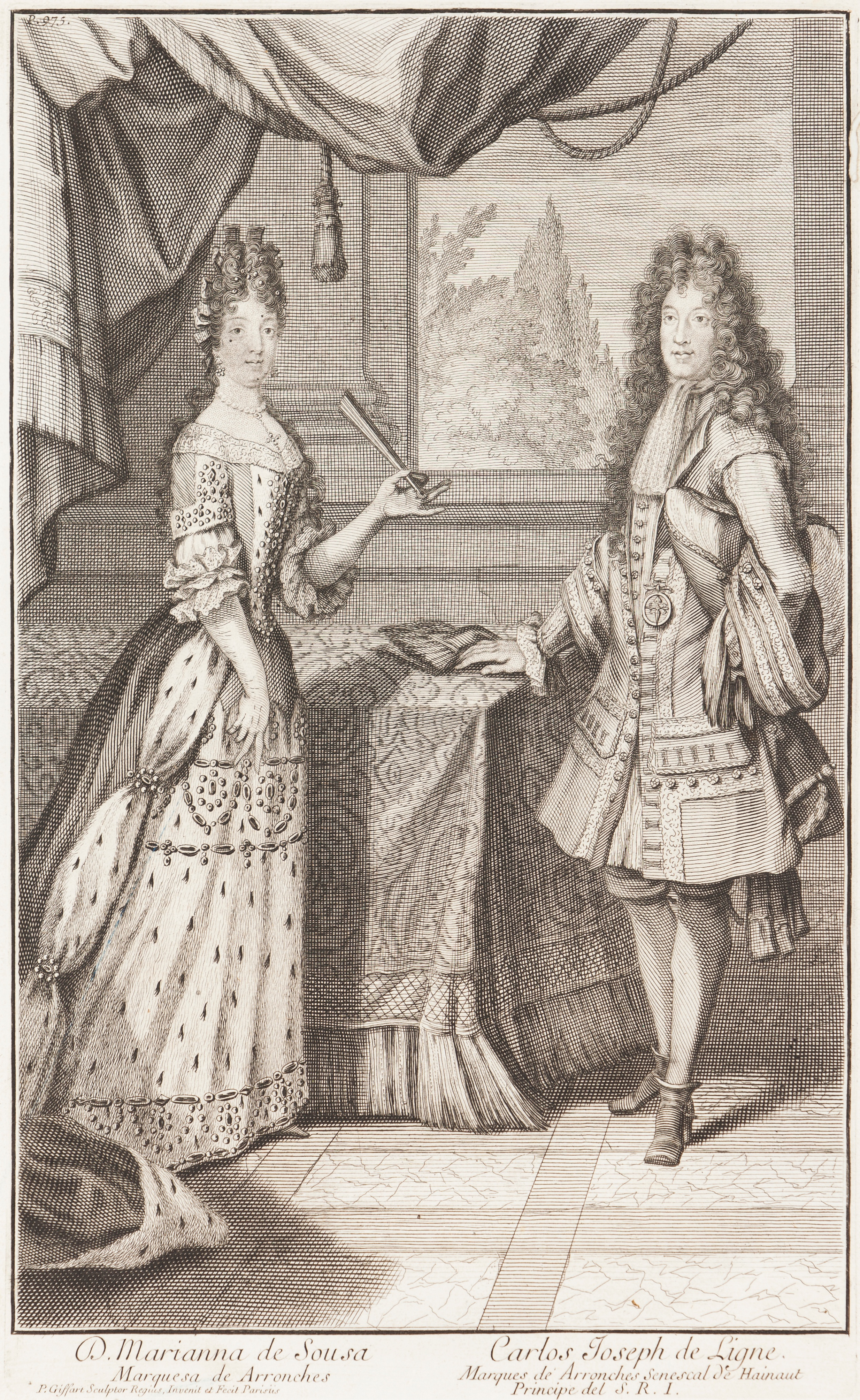 Portrait of the Marquise of Arronches, D. Mariana de Sousa, and her husband, Charles Joseph of Ligne; 1694 engraving by Pierre Giffart after a drawing by Brás de Almeida.